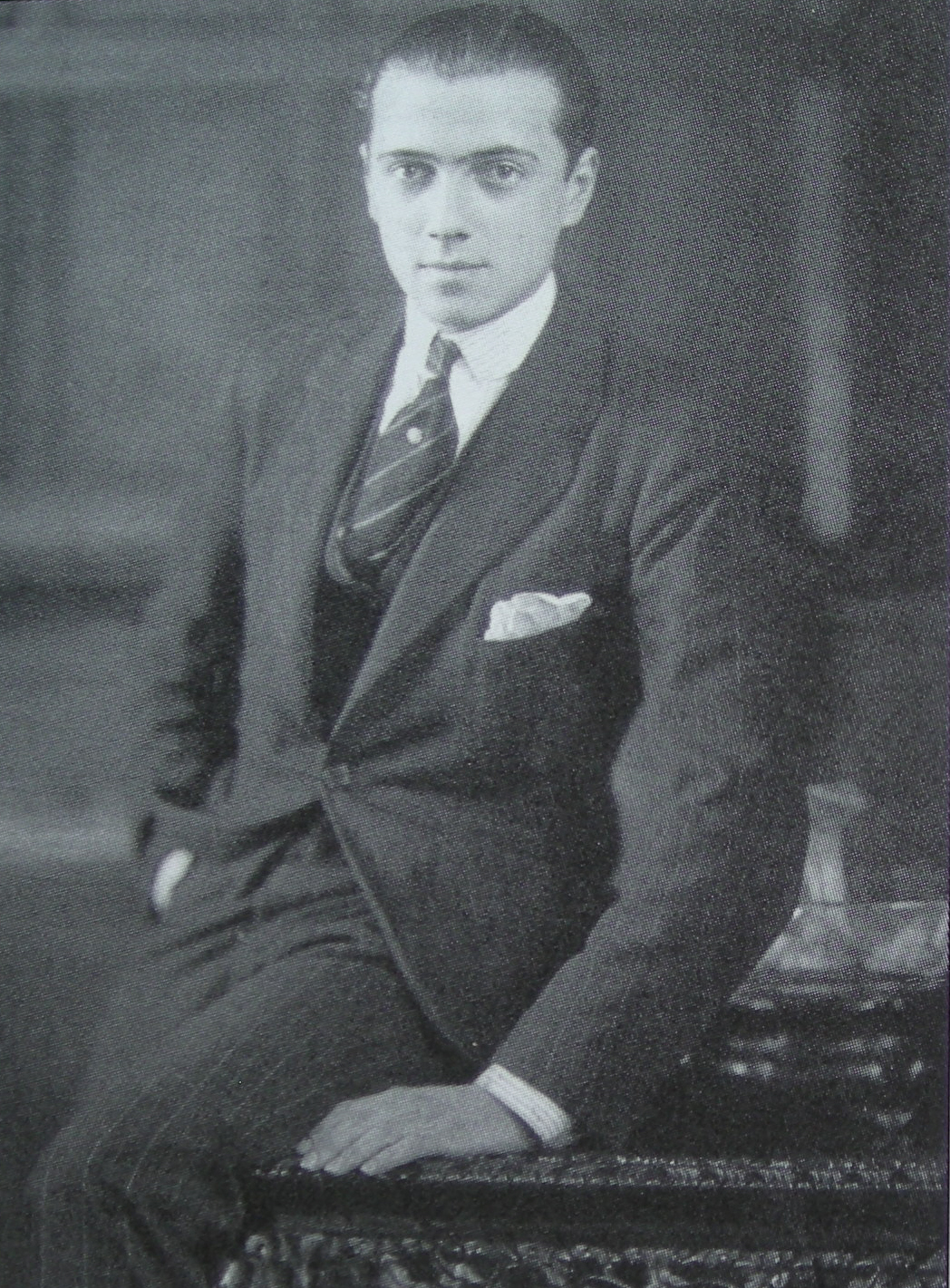 Prince Vasiliy Aleksandrovich of Russia